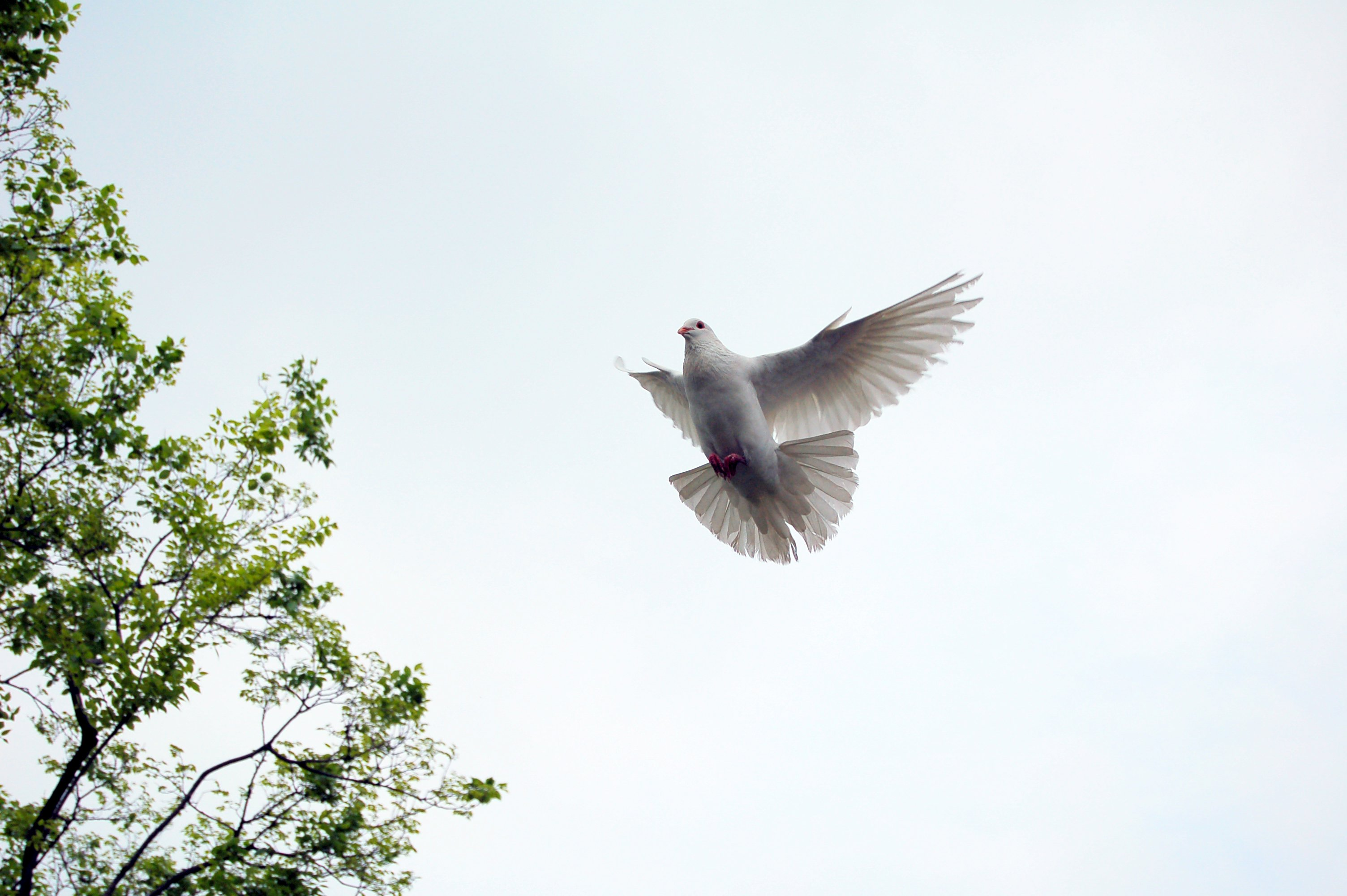 pigeon